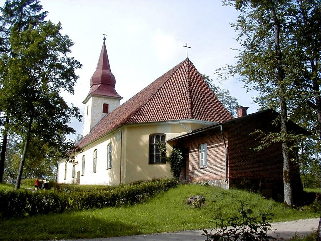 Āraiši Evangelical Lutheran ChurchLatviešu: Āraišu evaņģēliski luteriskā baznīca